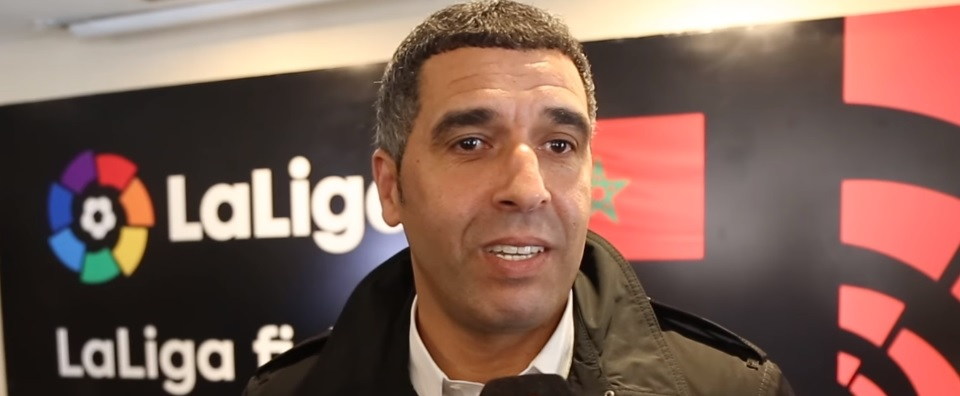 Noureddine Naybet